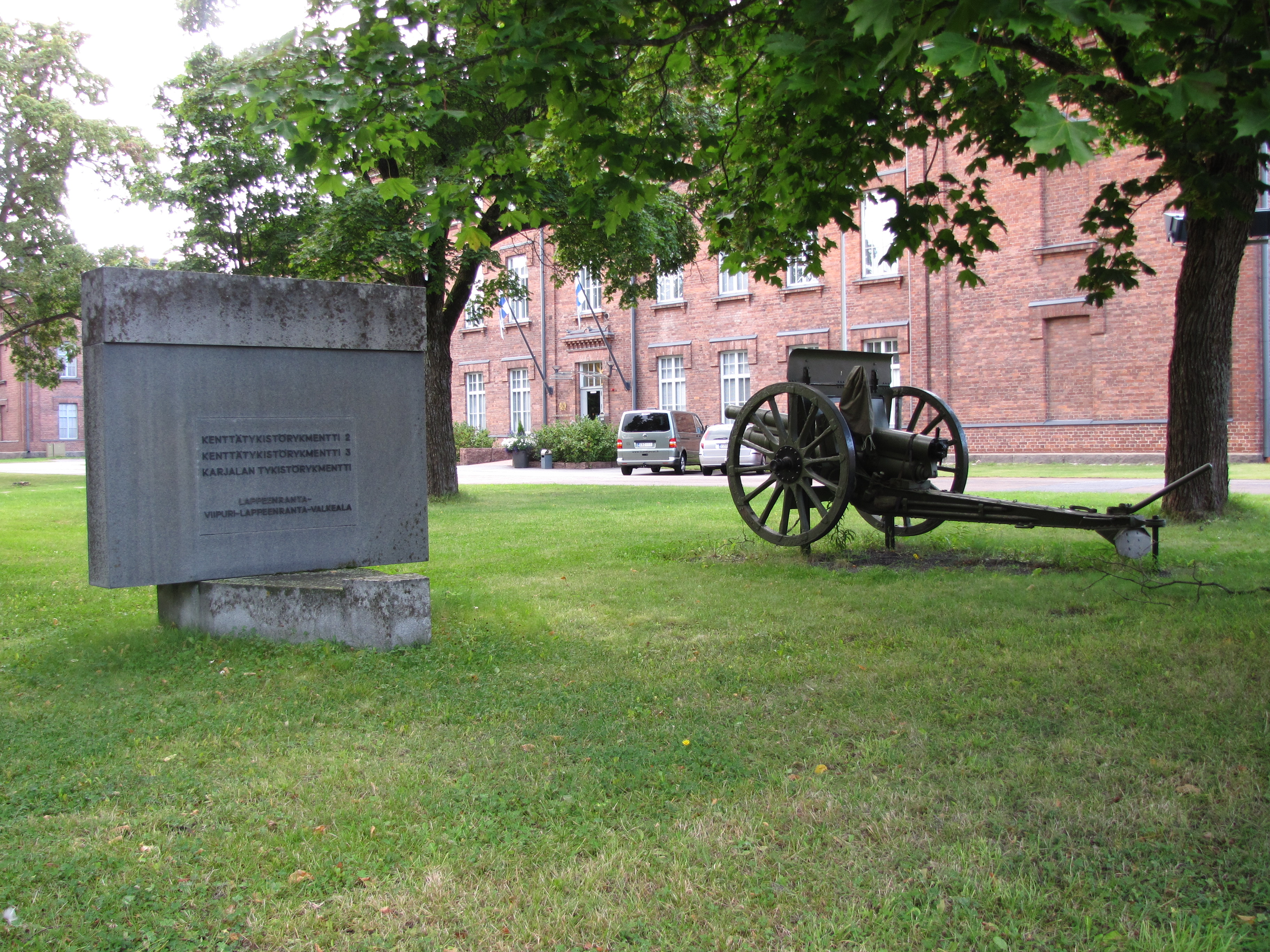 Memorial of field artillery regiment 2 and 3 as well as artillery regiment Karjala. The gun is a en:76 mm divisional gun M1902. Memorial designed by Erkki Matilainen and unveiled in 1985.